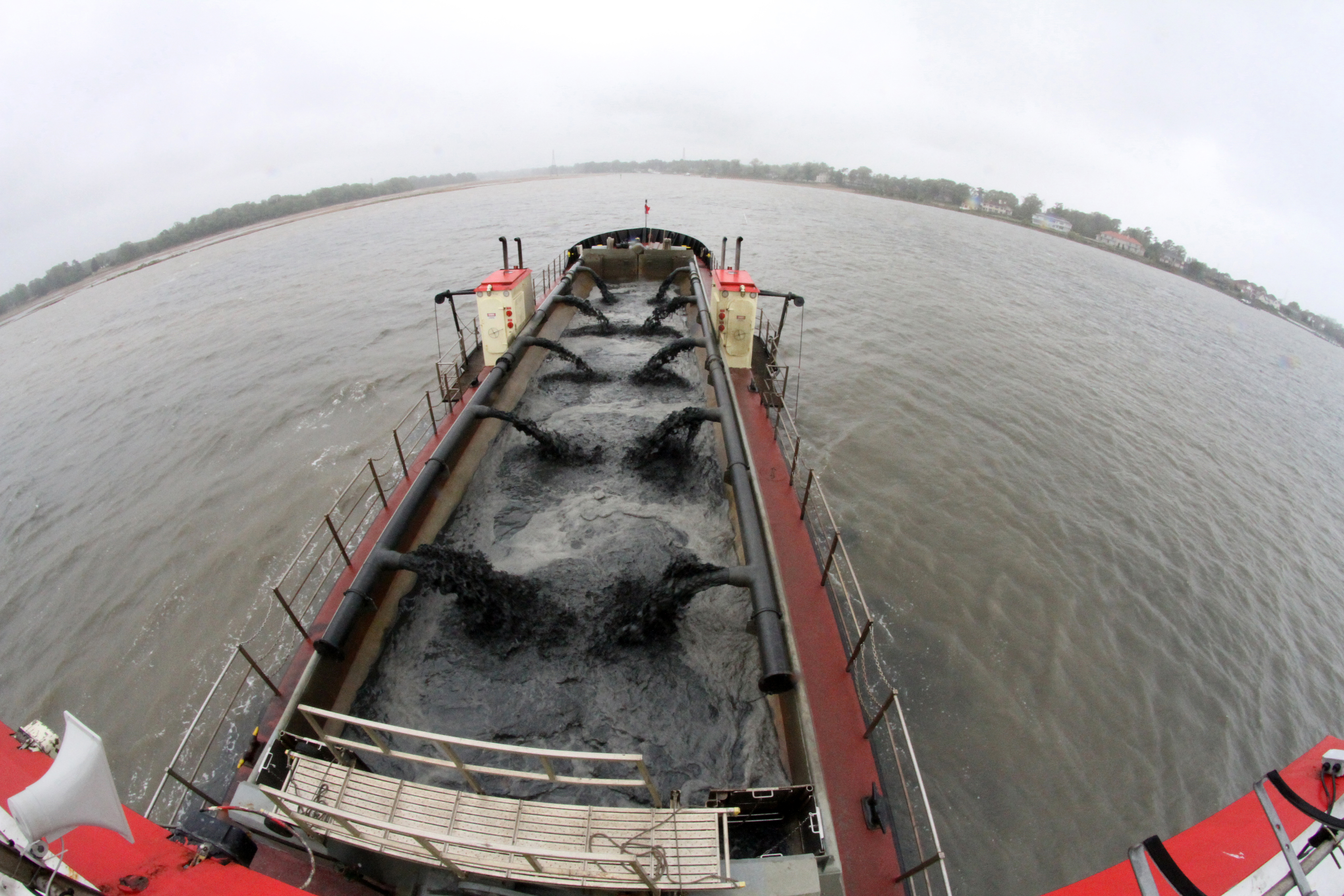 SUFFOLK, Va. -- Pumps from the Army Corps of Engineers’ hopper dredge Currituck, based out of Wilmington, N.C., filters sand from Bennett's Creek to increase the depth from 2 to 6 feet. The shallow-draft dredging of the federal navigation channel here began April 20, 2013. The Currituck will place approximately 4,000 cubic yards of sand -- equivalent to 450 dump trucks of sand –-at the Craney Island Dredged Material Management Area in Portsmouth, Va. (U.S. Army photo/Pamela K Spaugy)